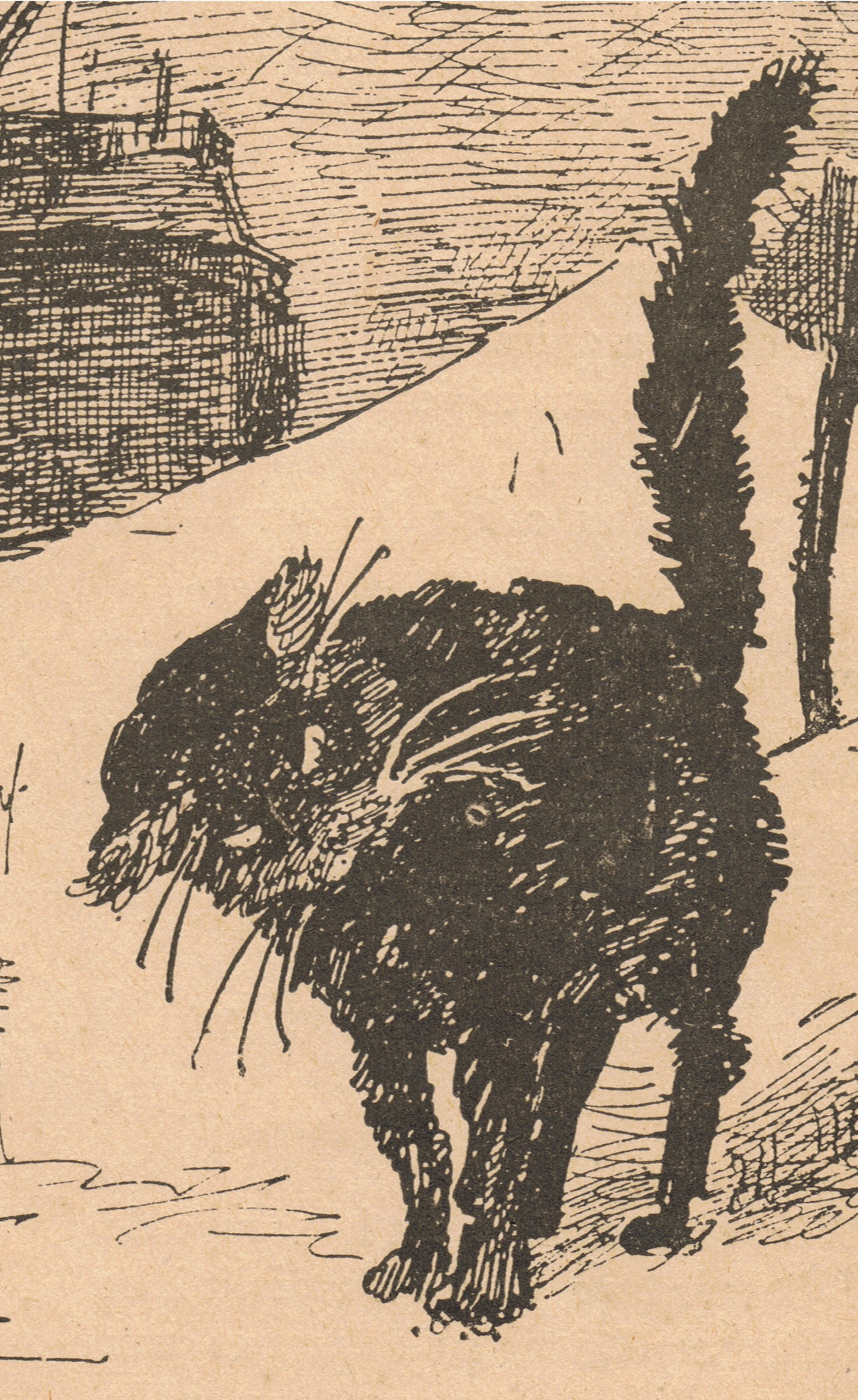 Scan of original detail from LE CHAT NOIR journal, number 152, 6 December 1884.